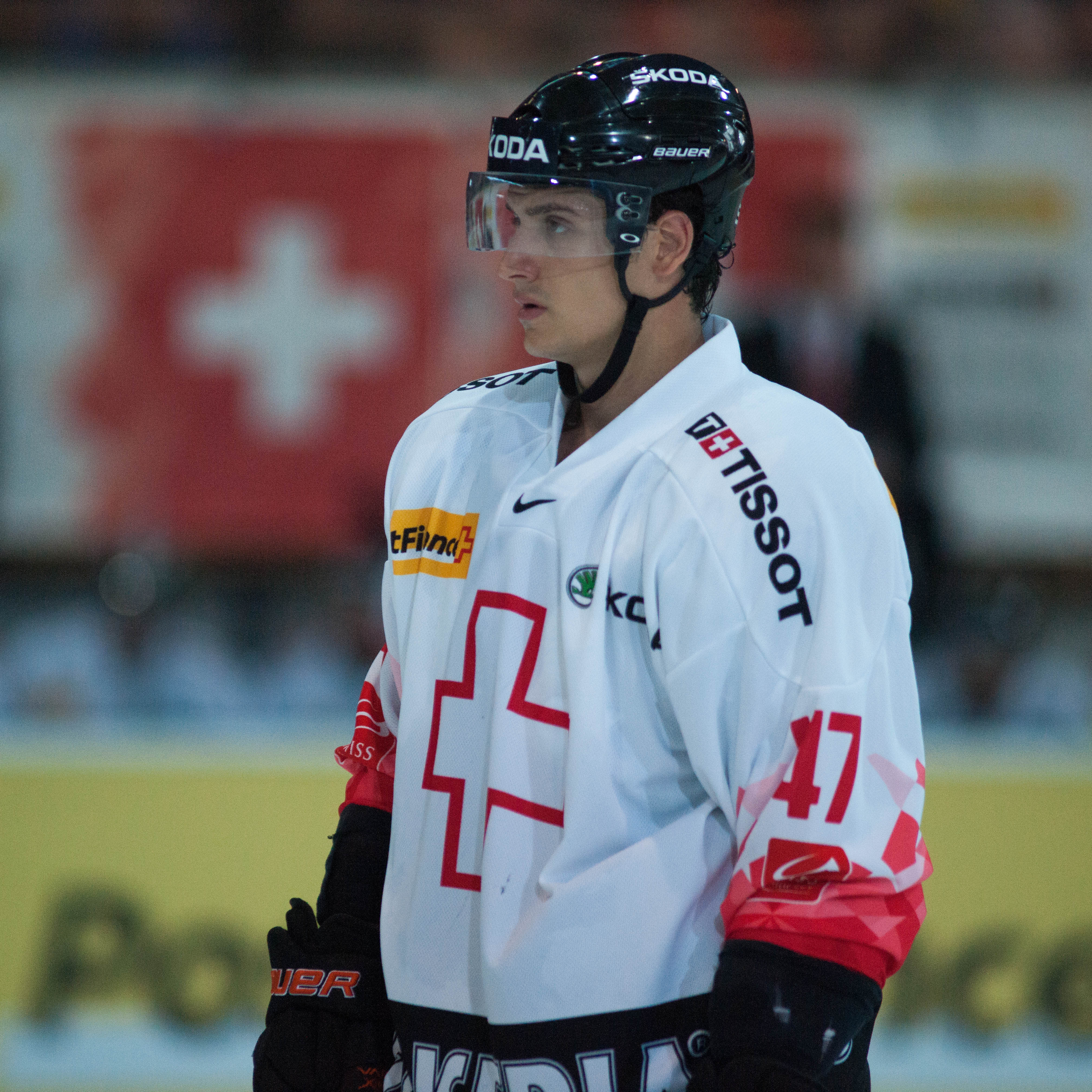 Luca Sbisa, Switzerland vs. Canada, 29th April 2012